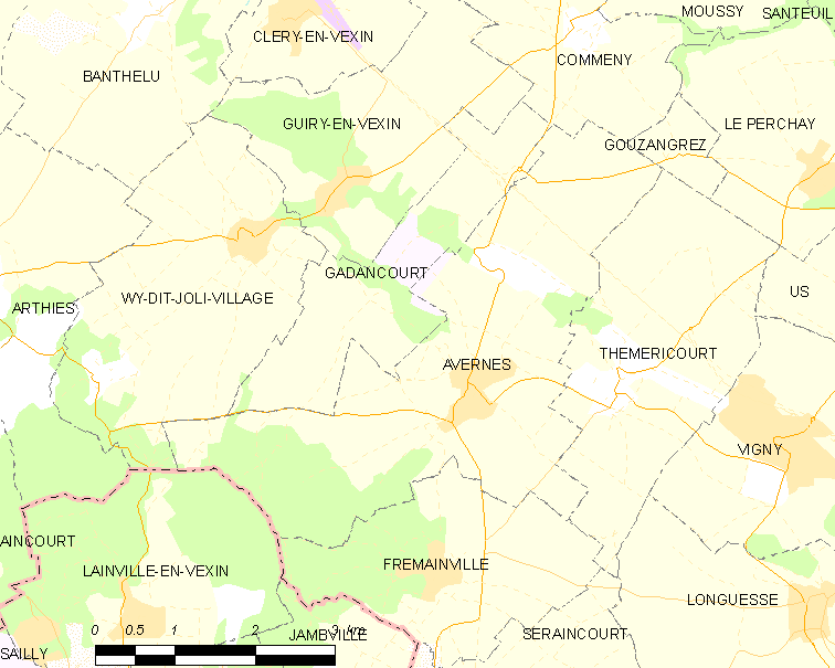 Map of French municipality Avernes